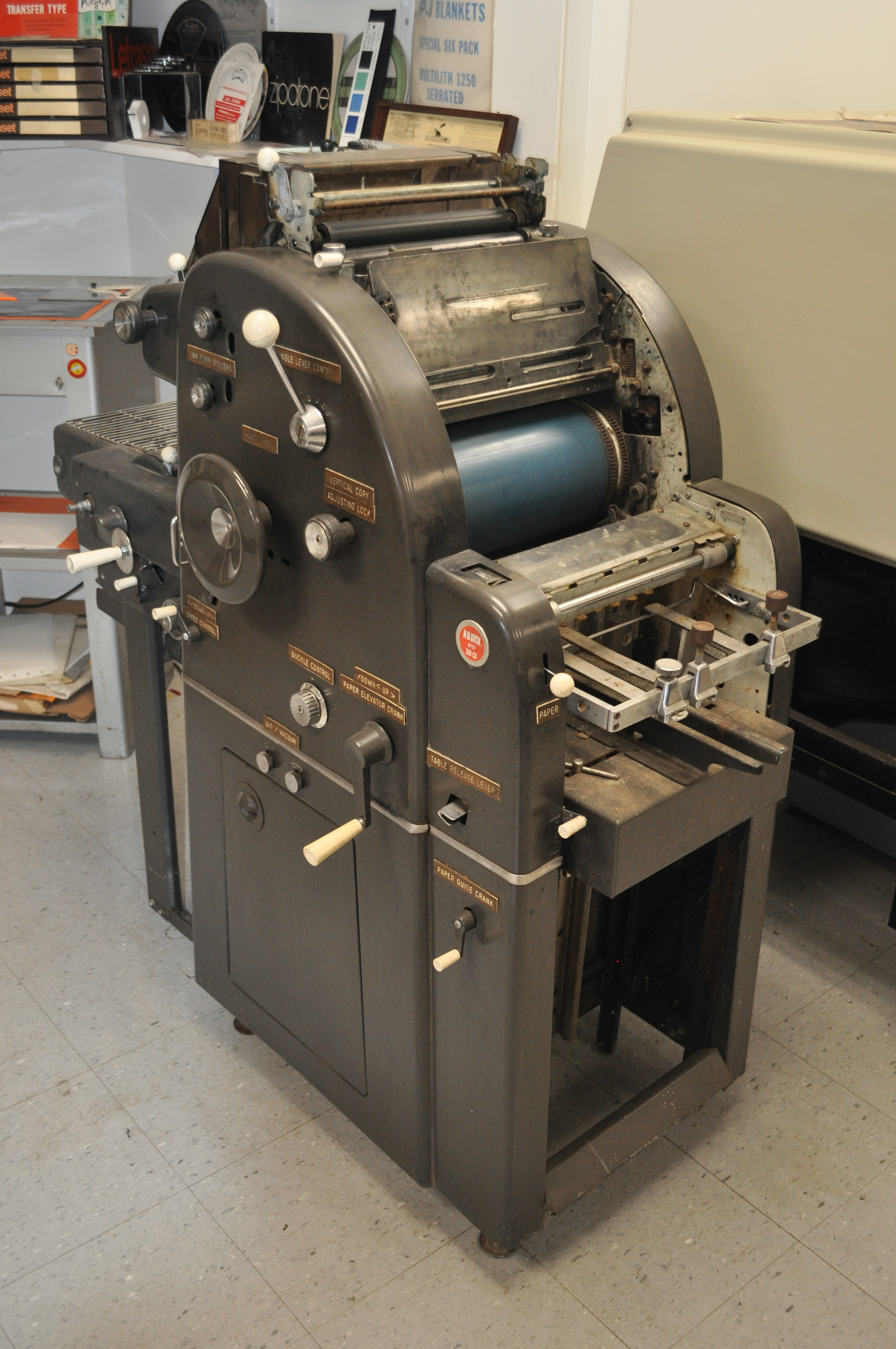 mimeograph in MOP